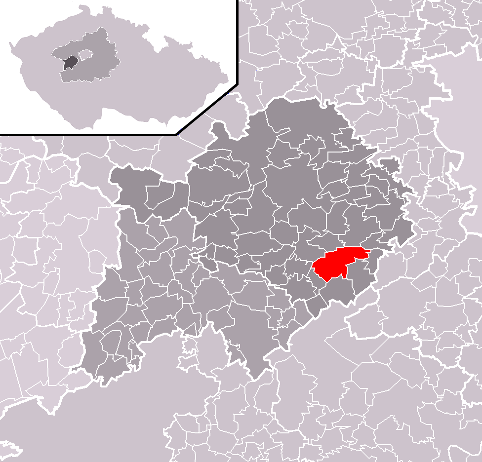 Location of Liteň municipality within Beroun District and administrative area of Beroun as a Municipality with Extended Competence.